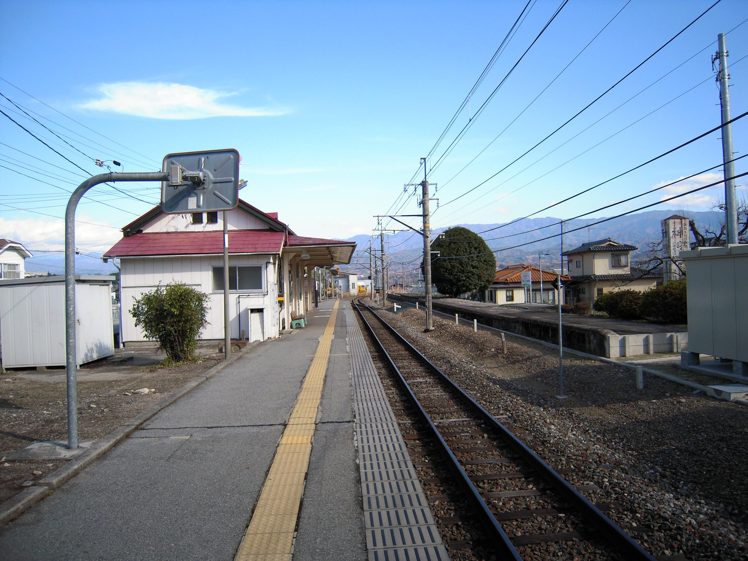 JR Iida Line Kanae Station. Only one out of two platforms is used.